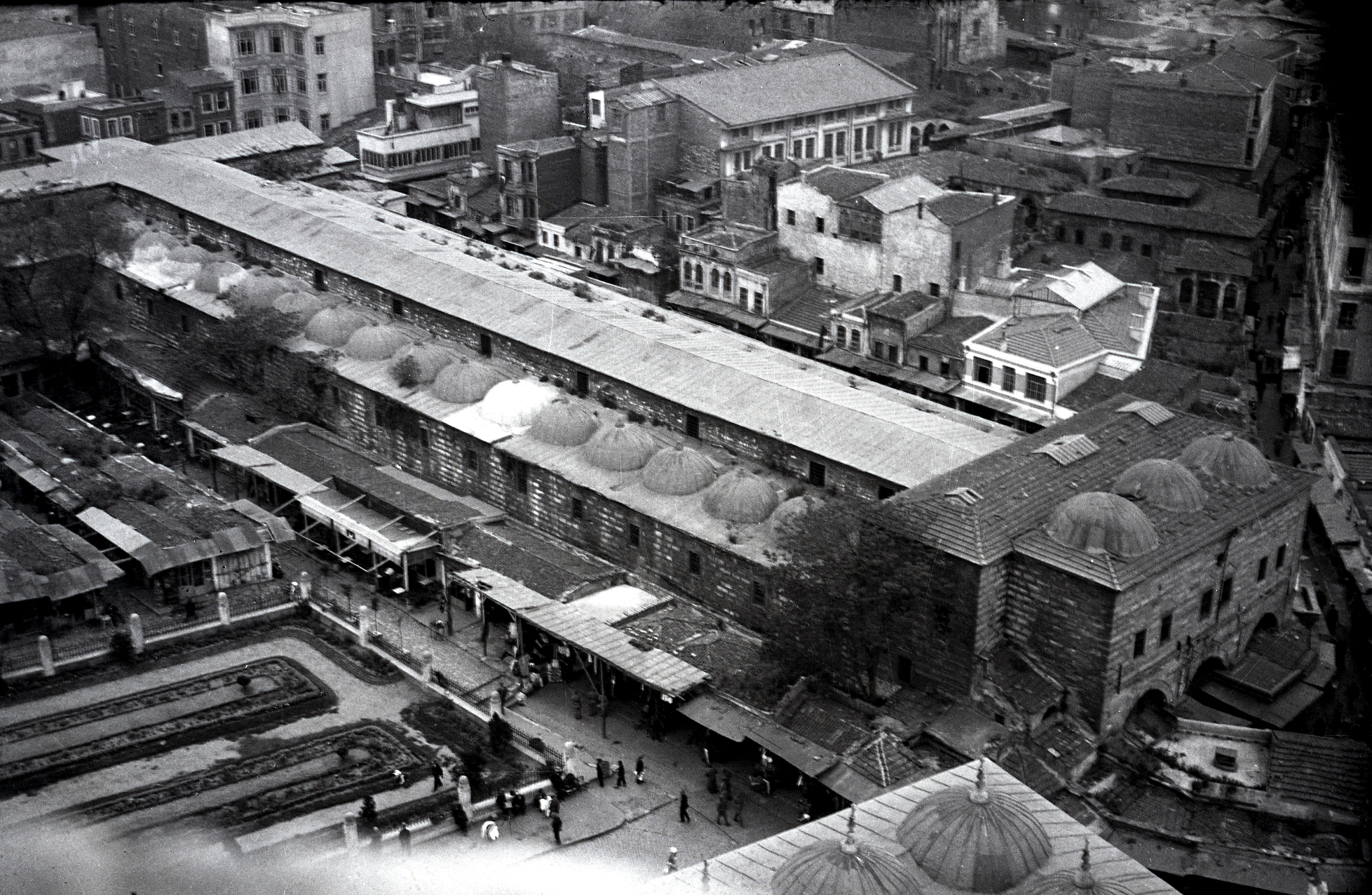 The Spice Bazaar in İstanbul was built in 1660 on the order of Hatice Turhan Sultan by the architect Kazım Ağa as a part of the New Mosque Complex. The bazaar was named “New Bazaar” or “Mother’s Bazaar,” but as its goods and spices mainly came from Egypt it later became known as the “Egyptian Bazaar.” The L shaped building, located right next to the New Mosque, has six entrances. The Egyptian Bazaar suffered two fires in 1691 and 1940. Following these, many of the bazaar’s original characteristics were lost during a period of restoration (1940-1943) and in 1941 it was seperated from the New Mosque by the construction of a road. SALT Research, Ali Saim Ülgen Archive Mısır Çarşısı, Yeni Cami Külliyesi’nin bir parçası olarak 1660’ta, Hatice Turhan Sultan tarafından baş mimar Kazım Ağa’ya yaptırılmıştır. O dönemde “Yeni Çarşı” ya da “Valide Çarşısı” olarak anılan yapı, dükkânlarda çoğunlukla Mısır’dan gelen mal ve baharatların satılması nedeniyle 18. yüzyıldan sonra “Mısır Çarşısı” adını alır. Yeni Cami’nin hemen yanında konumlanan L şeklindeki yapının altı kapısı bulunur. 1691 ve 1940’ta iki yangın atlatan çarşı, 1941’deki yol çalışmasıyla Yeni Cami’den ayrılmıştır. 1940-1943 yıllarında geçirdiği restorasyonla özgün niteliklerini büyük ölçüde kaybetmiştir. SALT Araştırma, Ali Saim Ülgen Arşivi